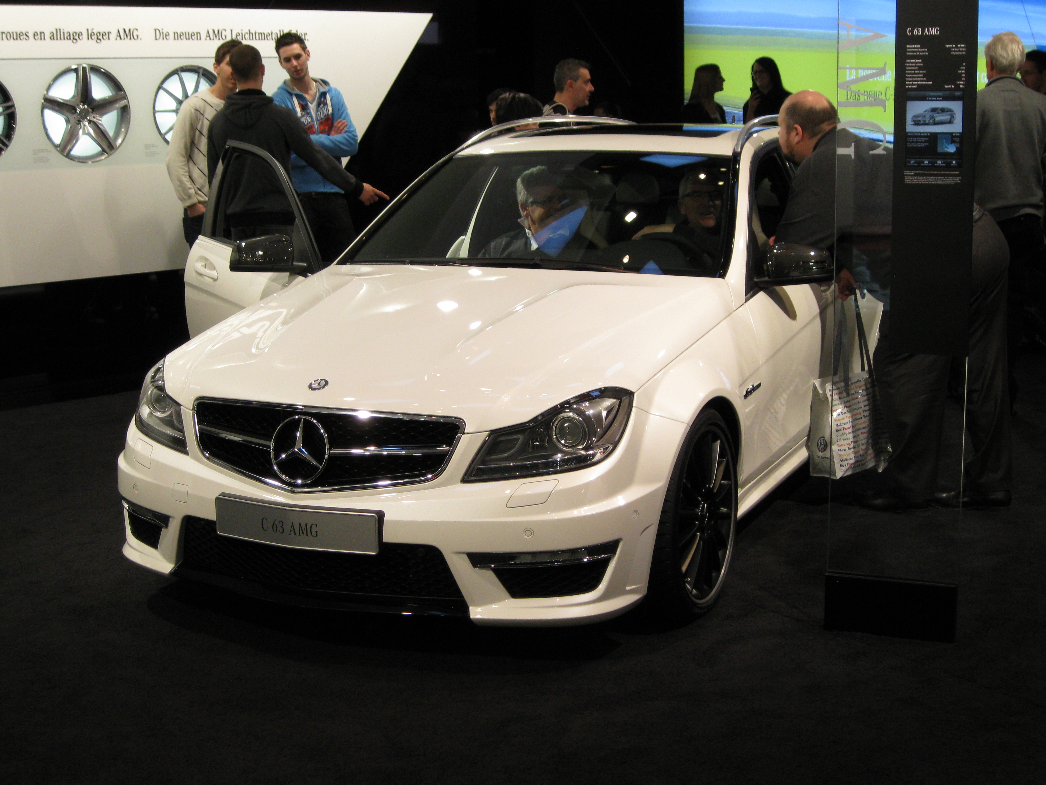 Geneva Motor Show 2011